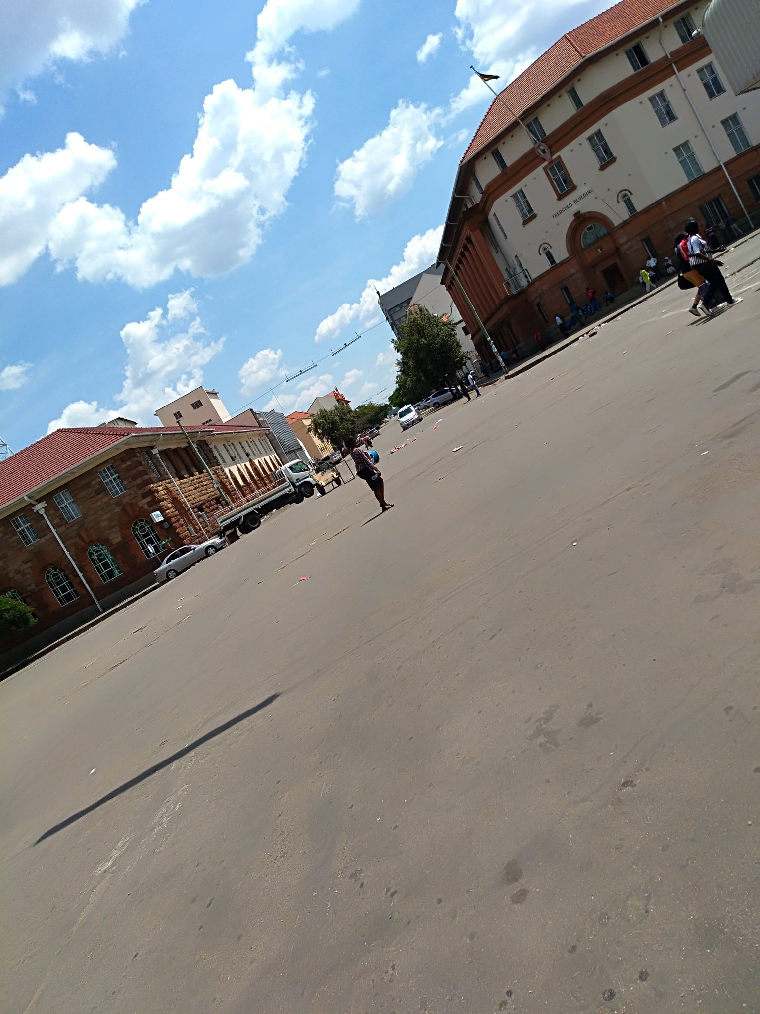 January 2019 shutdown Zimbabwe This is an image with the theme "Africa on the Move or Transport" from: Zimbabwe